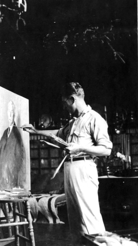 Helen and Leopold Seyffert, Seal Harbor, Maine 1916